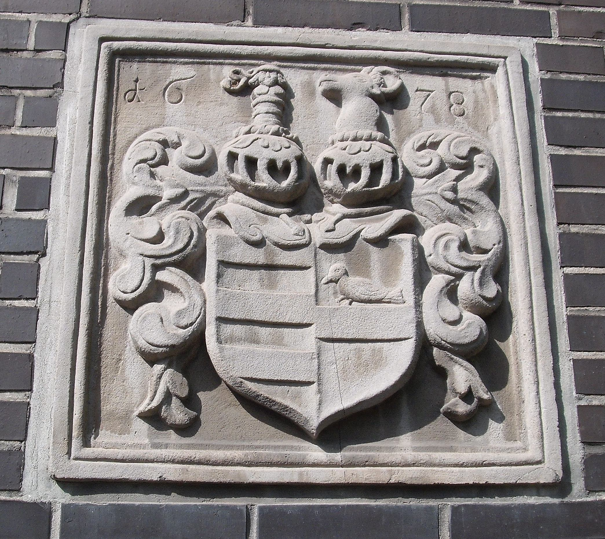 coat of arms of Sterkrade